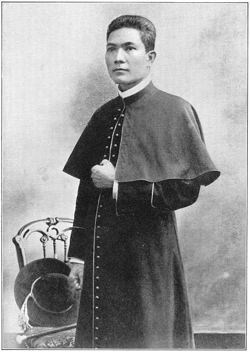 The Rt. Rev. Bishop Gregorio Aglípay High Bishop of the Philippine Independent Church.